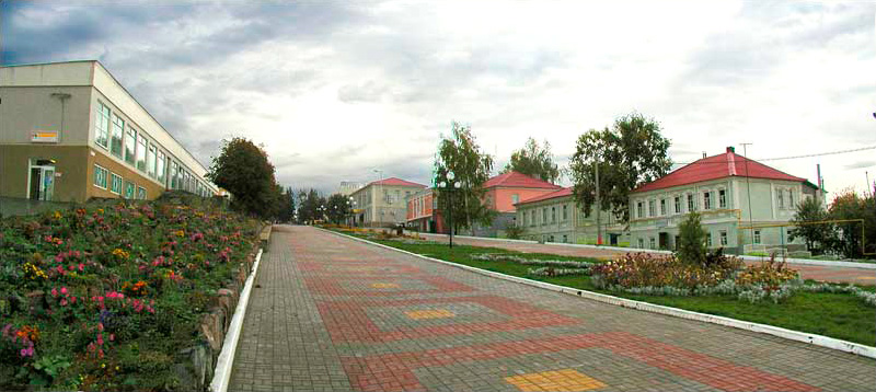 Biryuch. Boulevard.